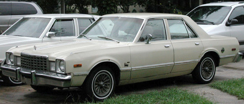 1979 Plymouth Volare. My infamous automobile.